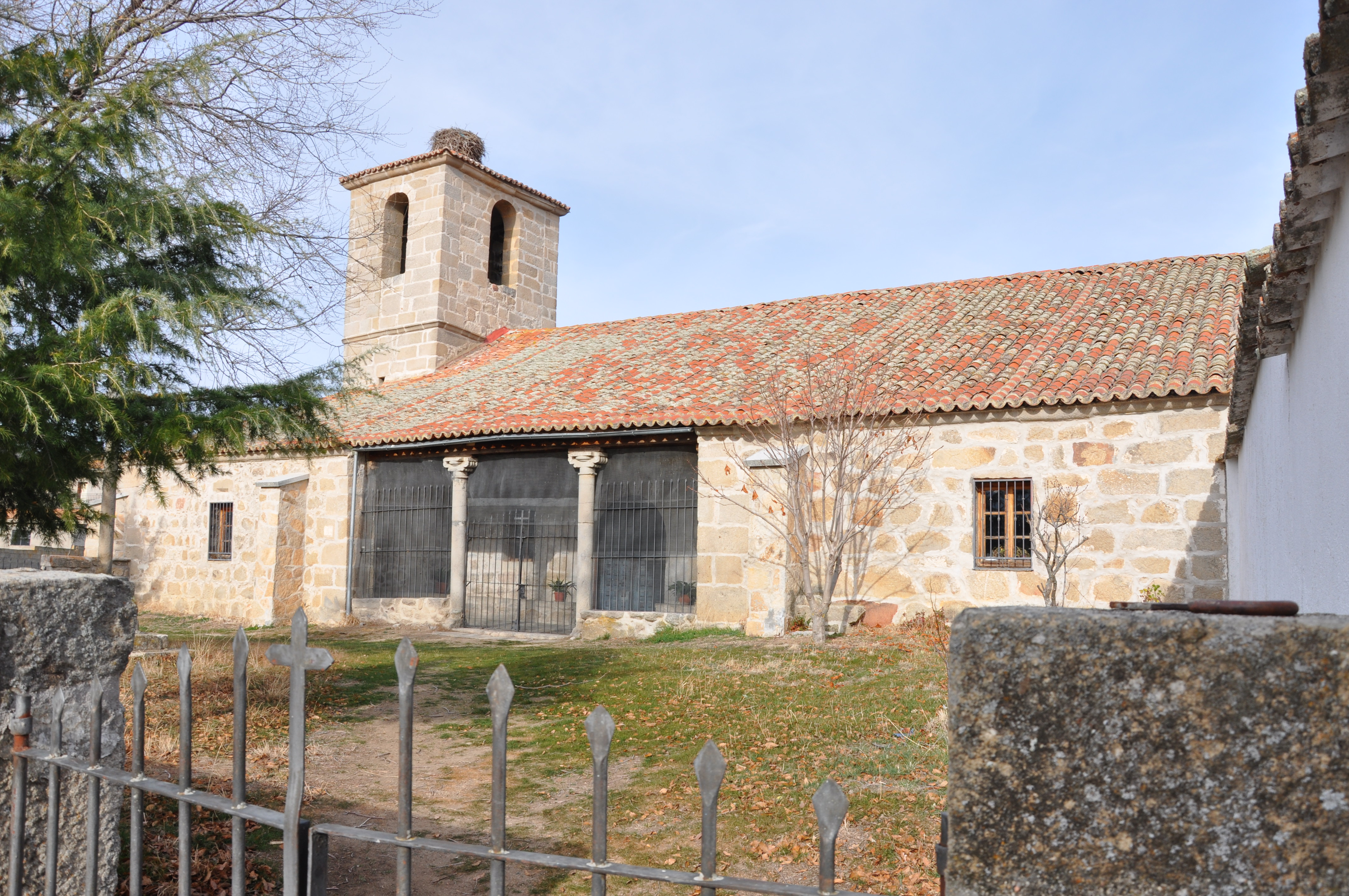 Church of San Juan Bautista, Amavida, Ávila, Spain